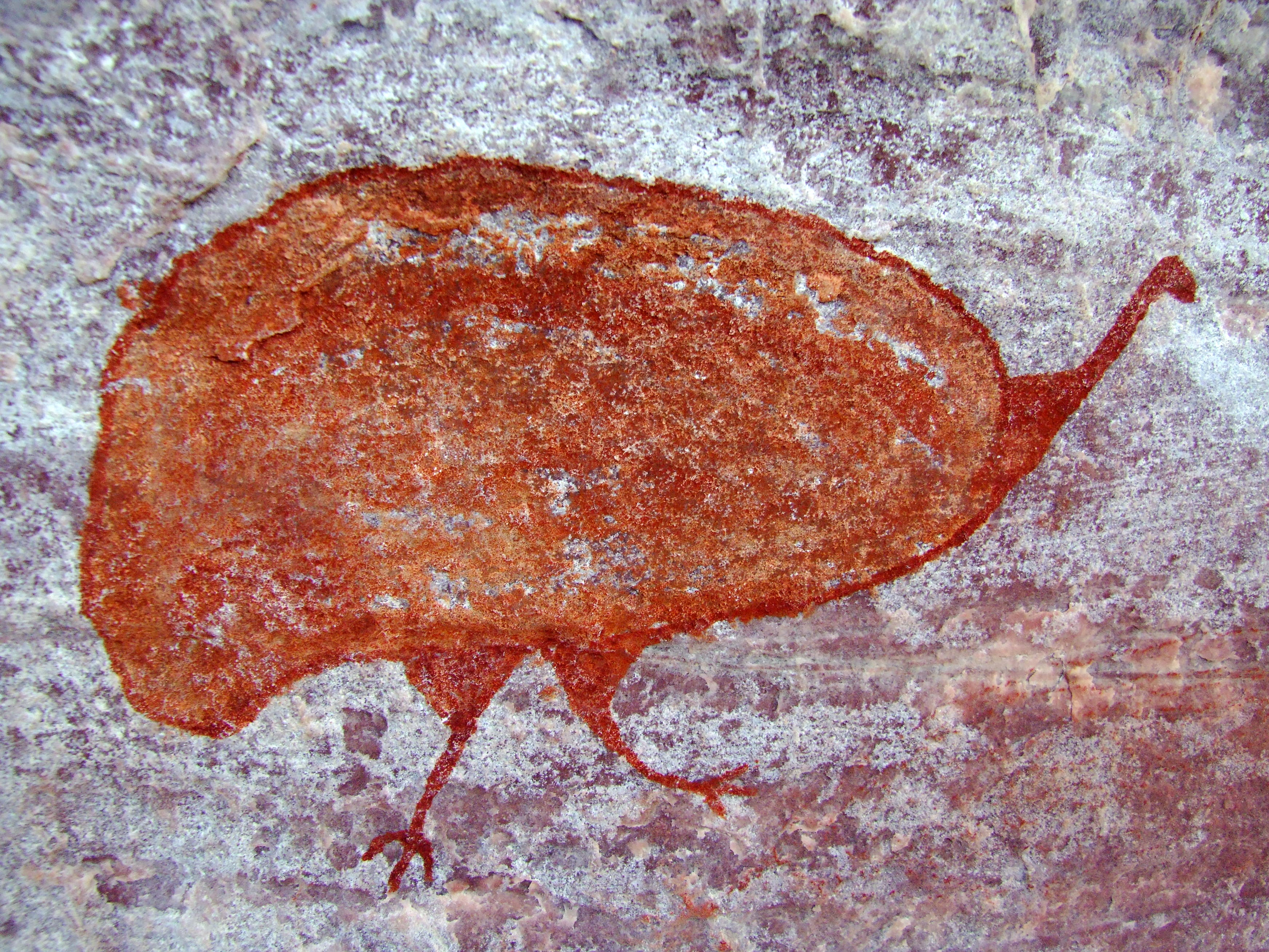 Cave painting representing a bird of great bearing in Diamantina Morro do Chapéu, Brazil.